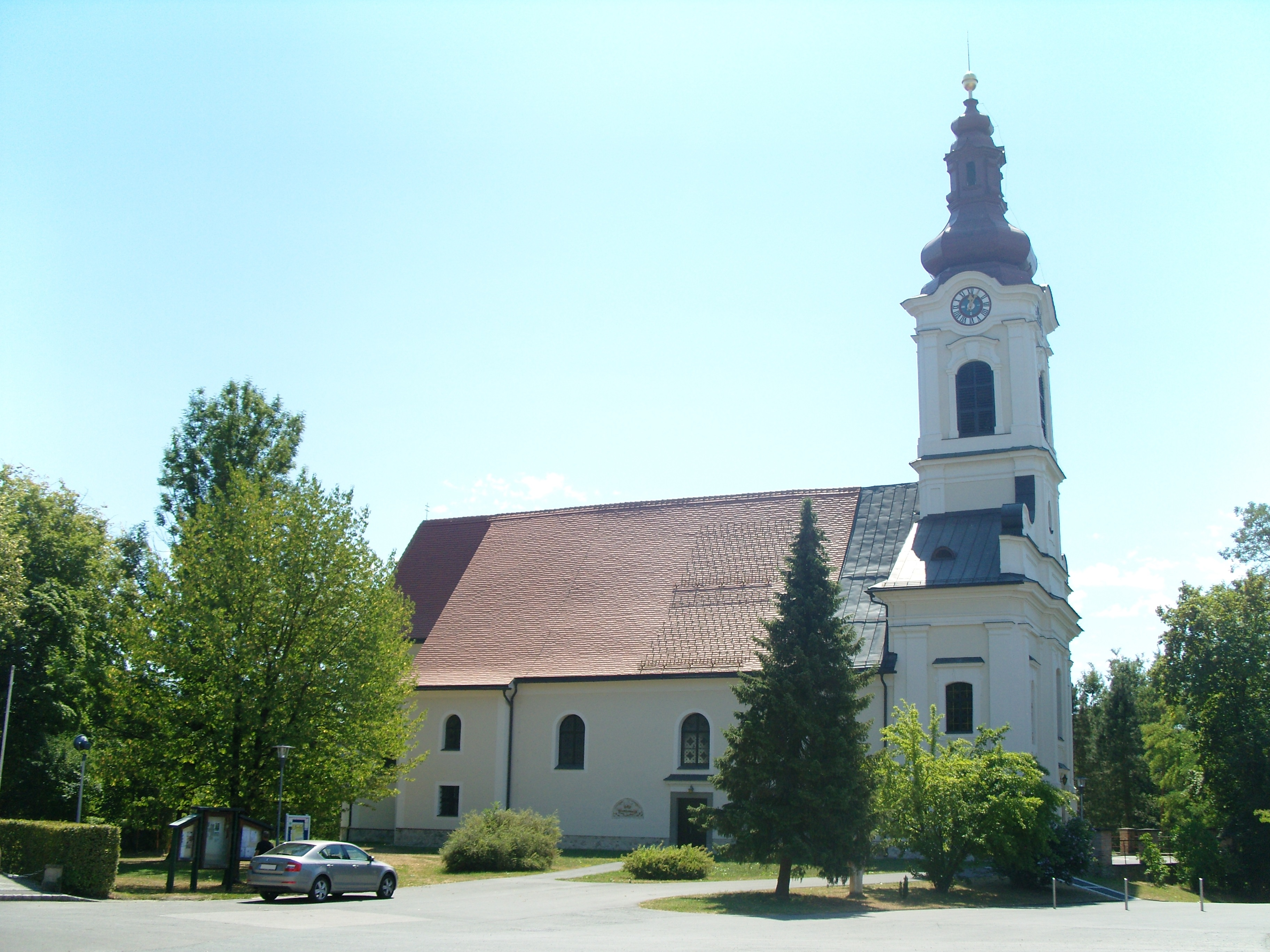 Church Gleinstätten - Saint Michael - Styria / Austria